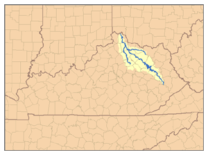 This is a map of the Licking River watershed, showing the North Fork and South Fork tributaries. I, Pfly, made it, based on USGS data.